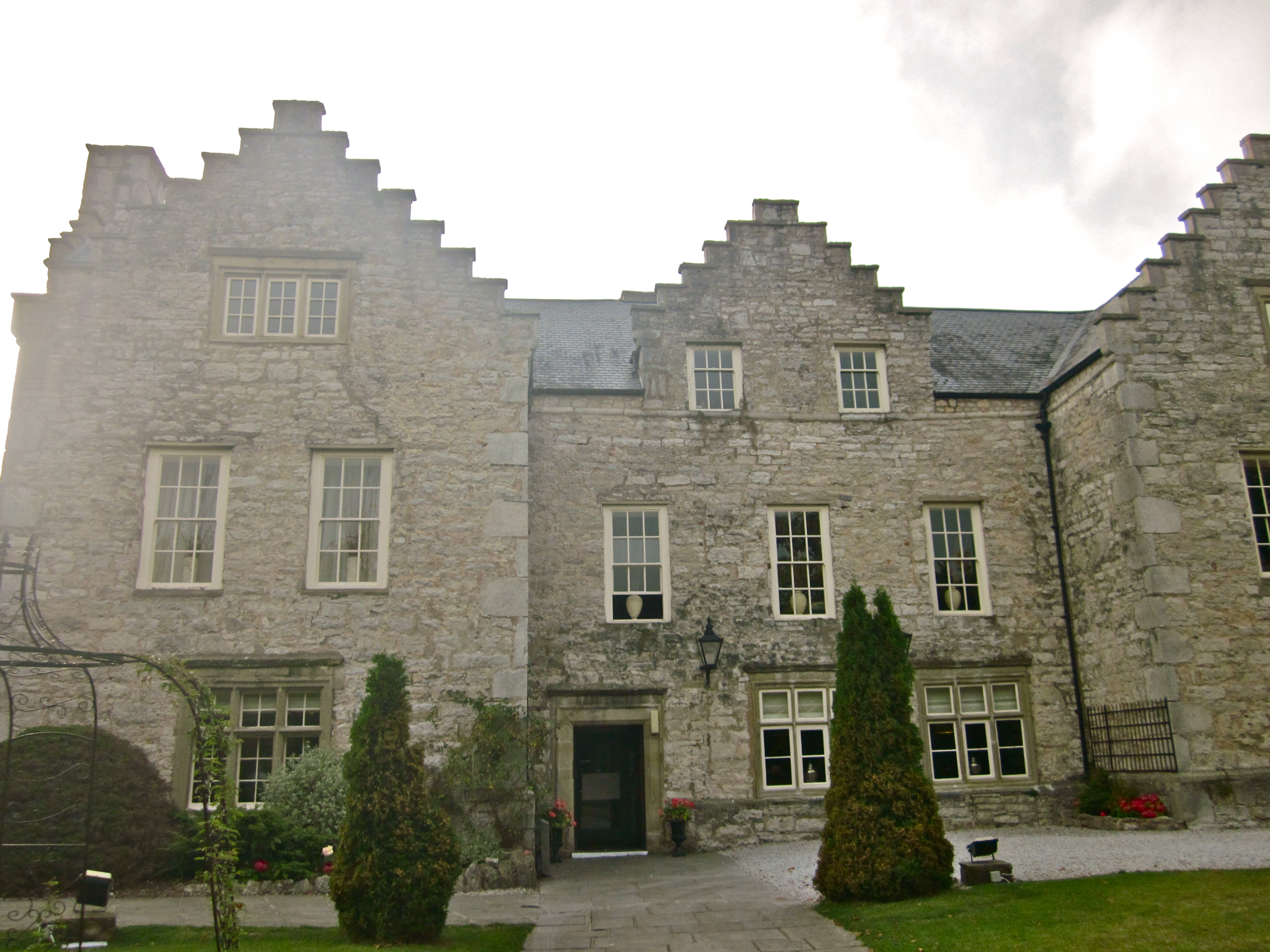 Faenol Fawr, Bodelwyddan. East frontage with crow-stepped gable and pediment.